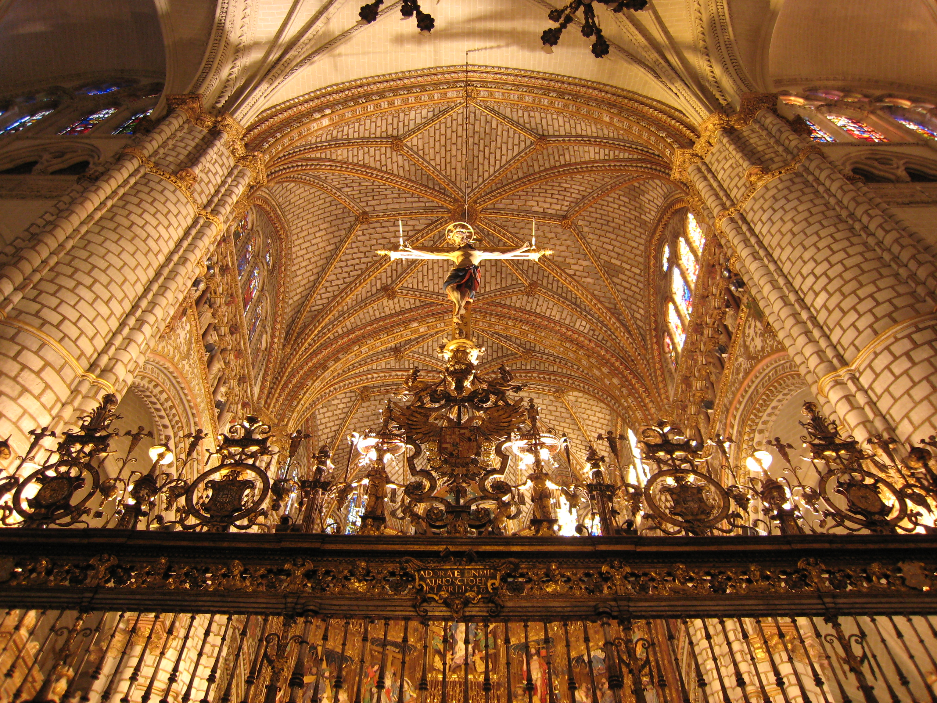 Railings of the main chapel, Toledo Cathedral, Spain